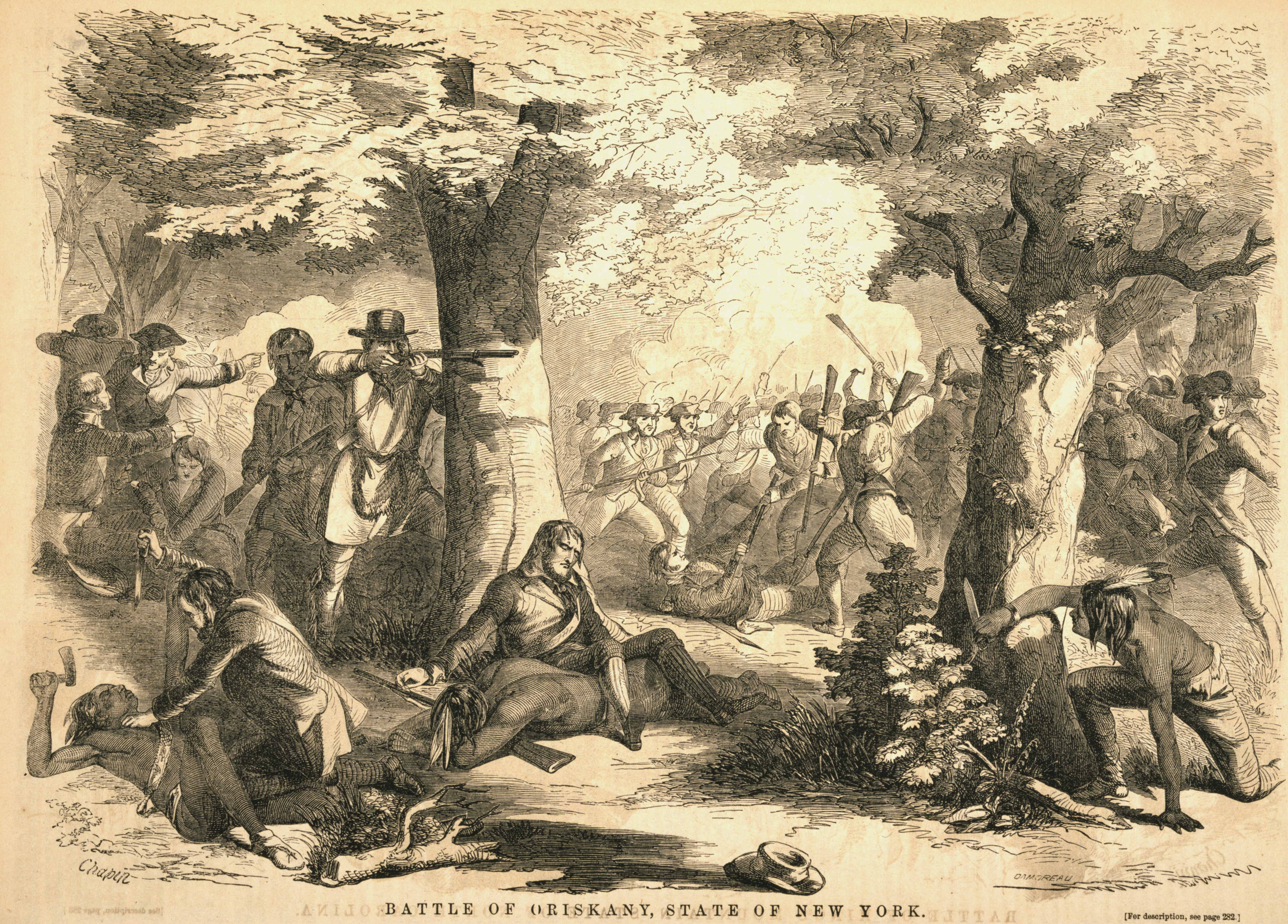 Battle of Oriskany. Print shows scene during the battle at Oriskany, N.Y., with American patriots combating the combined forces of the British, Loyalists, and Natives. General Nicholas Herkimer, commander of the American forces, is shown (on the left) giving orders from his saddle which is on the ground after his horse was shot from beneath him.